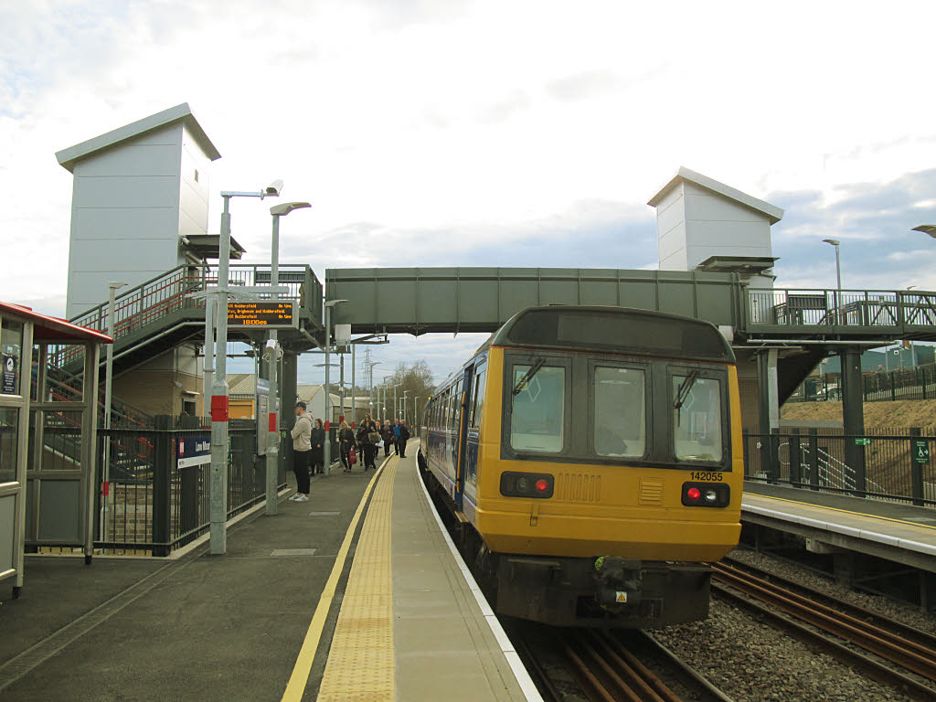 Low Moor station: stopping train